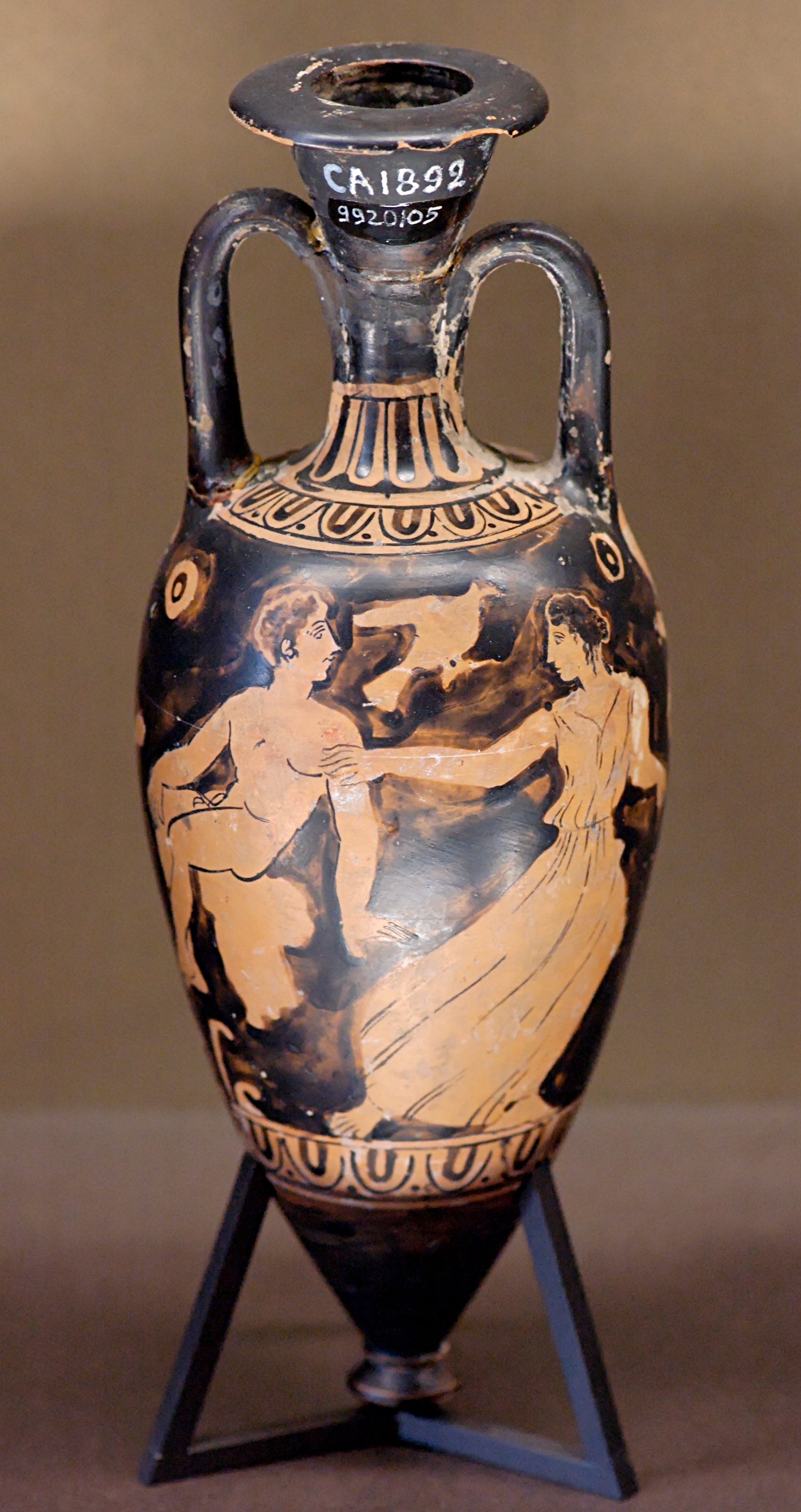 Young man seated with a woman. Side A from a red-figure amphoriskos.